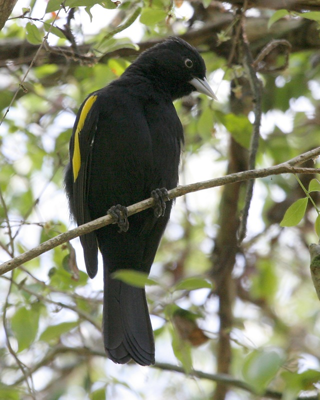 Golden-winged Cacique (Cacicus chrysopterus) at Ibera Marshes, Argentina. 2nd. April 2006